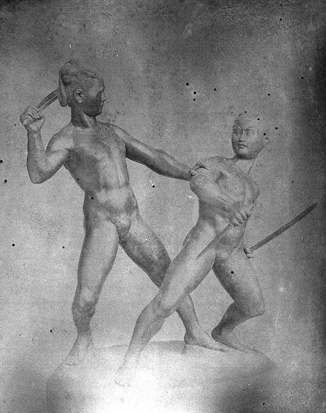 thaing2.jpg